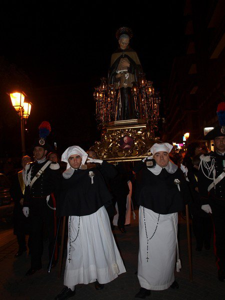 Procession of St. Giles from Taranto (Taranto)